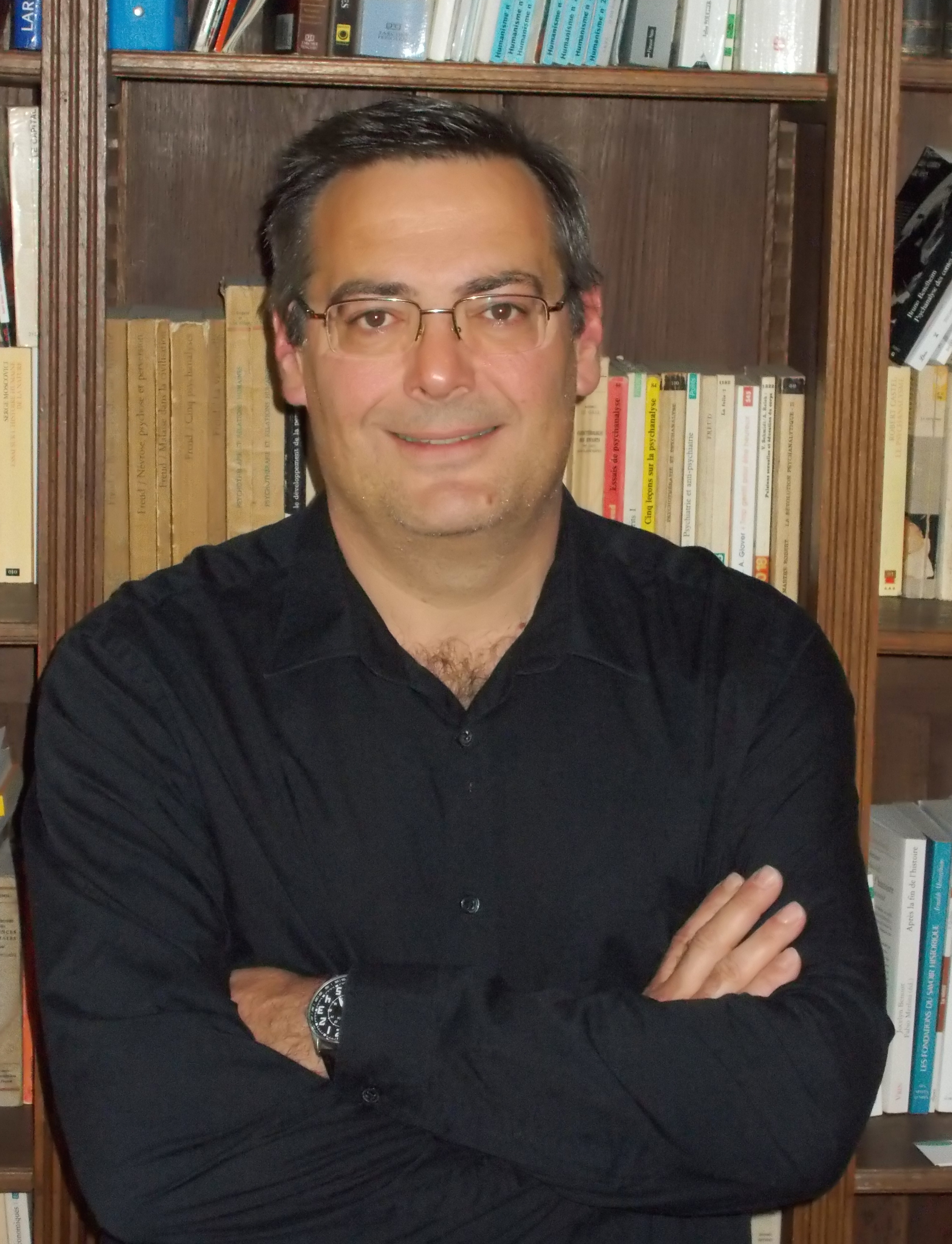 Photo PAM